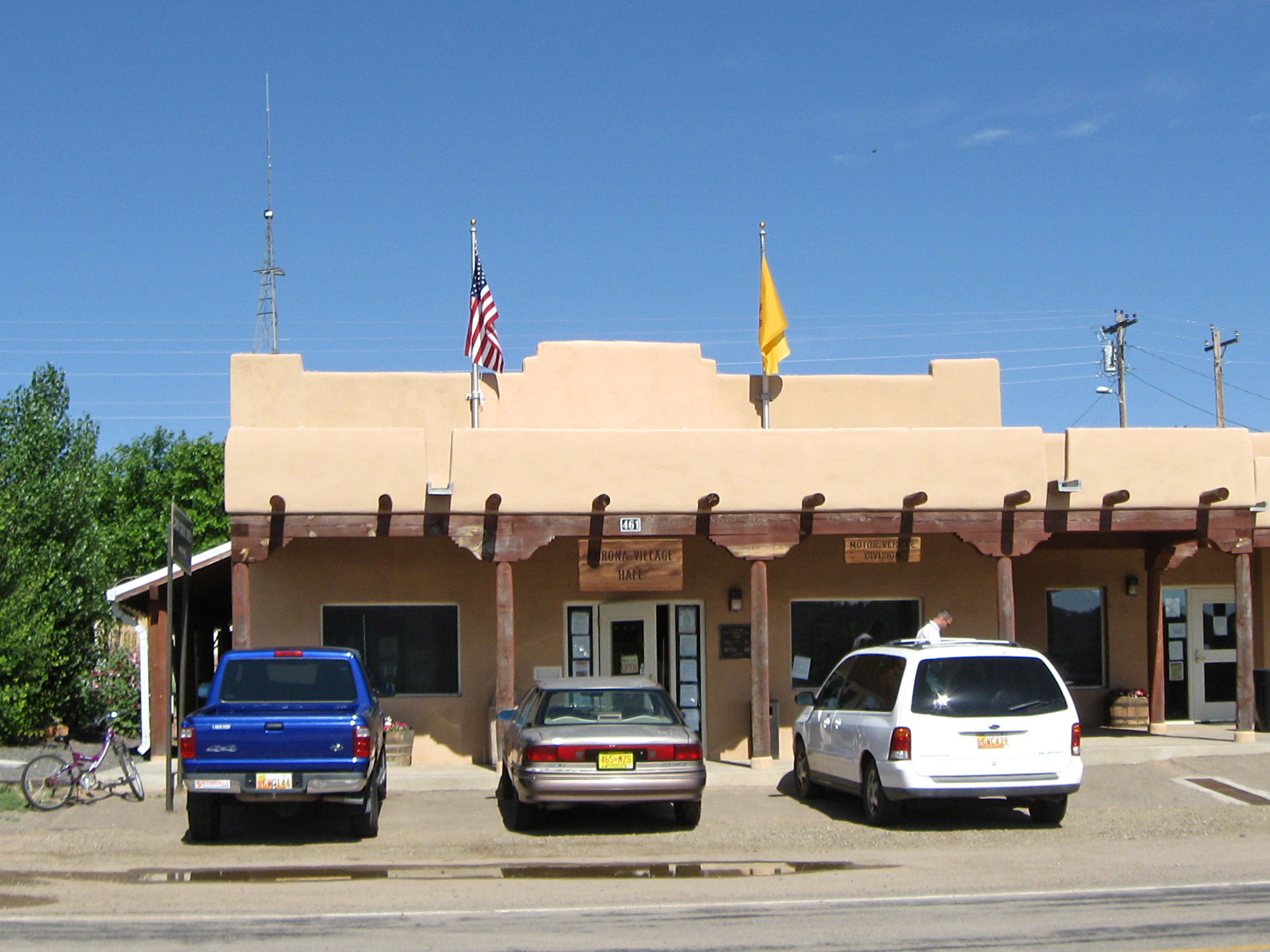 Corona (New Mexico) Village Hall, located at 461 Main Street in Corona, New Mexico